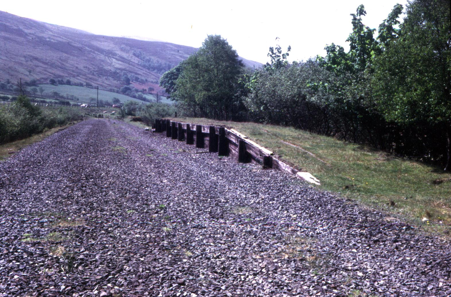 Garneddwen Halt after closure. Up platfom, looking towards Barmouth Junction.